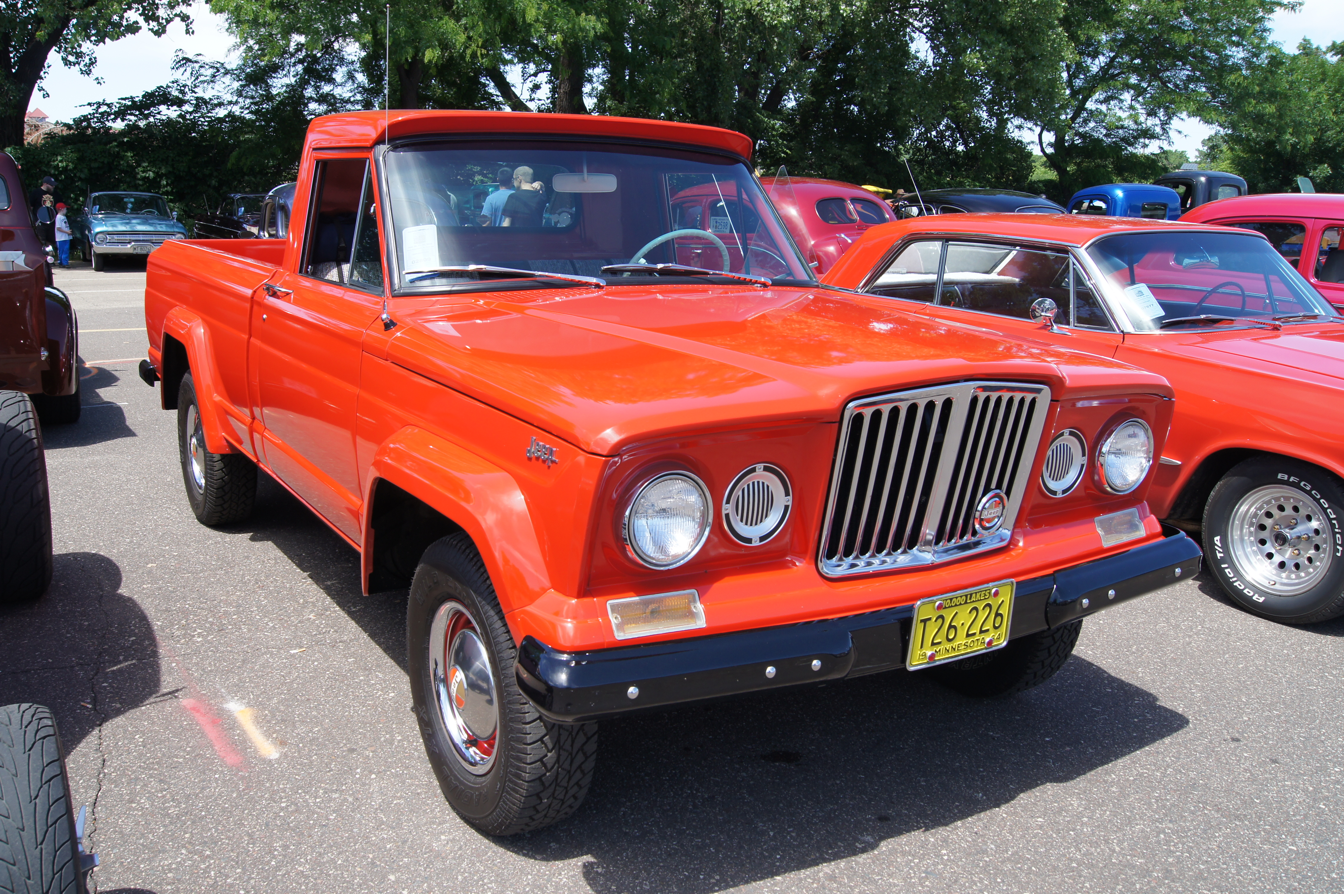 MSRA “BACK TO THE 50′s” 41st Annual June 20-22, 2014 State Fairgrounds St. Paul Minnesota More Car Pictures